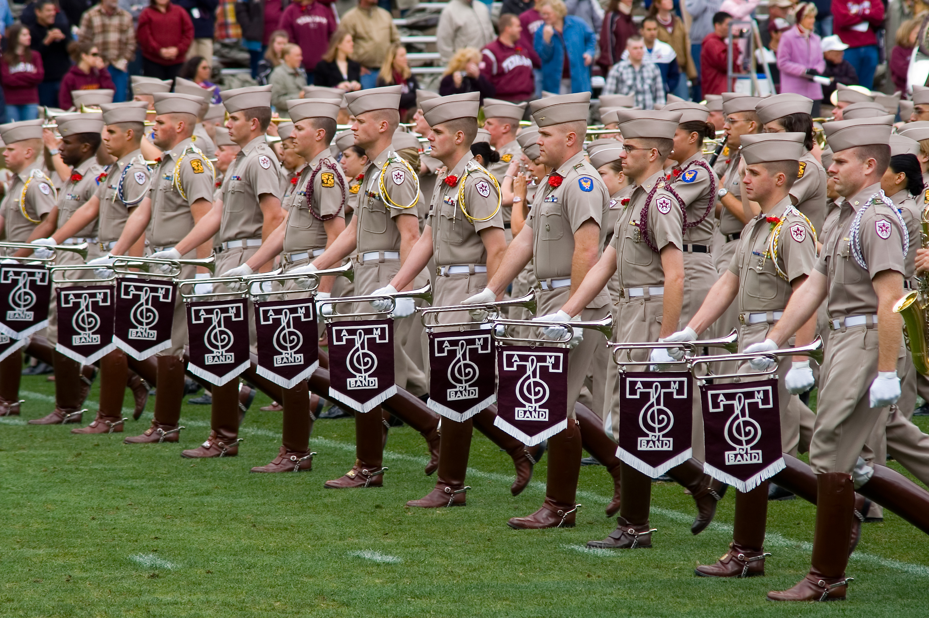 Halftime at the 2007 Maroon & White Football Game during Parent's Weekend at Texas A&M University